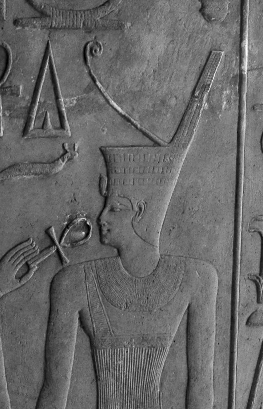 White Chapel (Chapelle blanche) of Sesostris I. at Karnak, 12th Dynasty, Open Air Museum Karnak